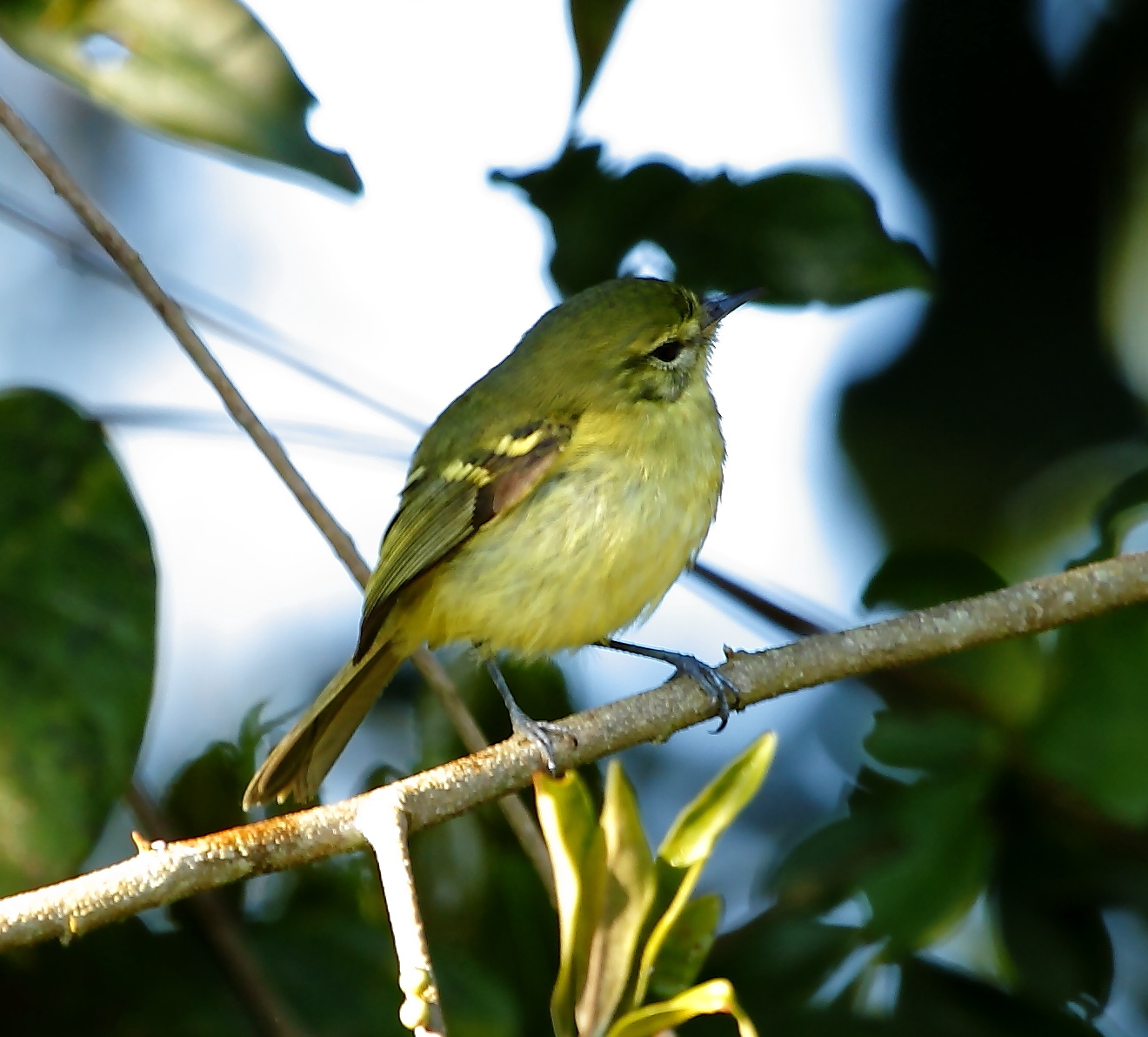 Restinga tyrannulet at Joinville - SC - Brazil